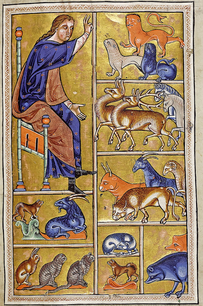 Folio 5 recto from the Aberdeen Bestiary.detail